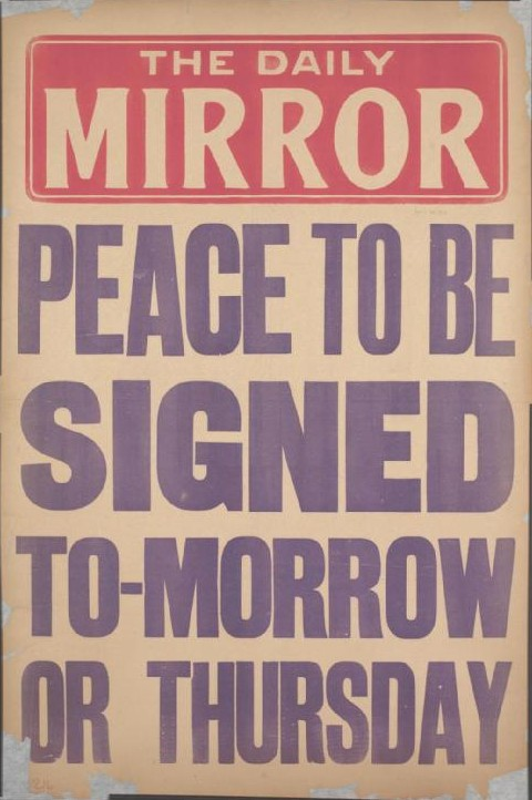 Placard for the Daily Mirror : "Peace To Be Signed To-Morrow or Thursday" : refers to imminent signing of the Treaty of Versailles.